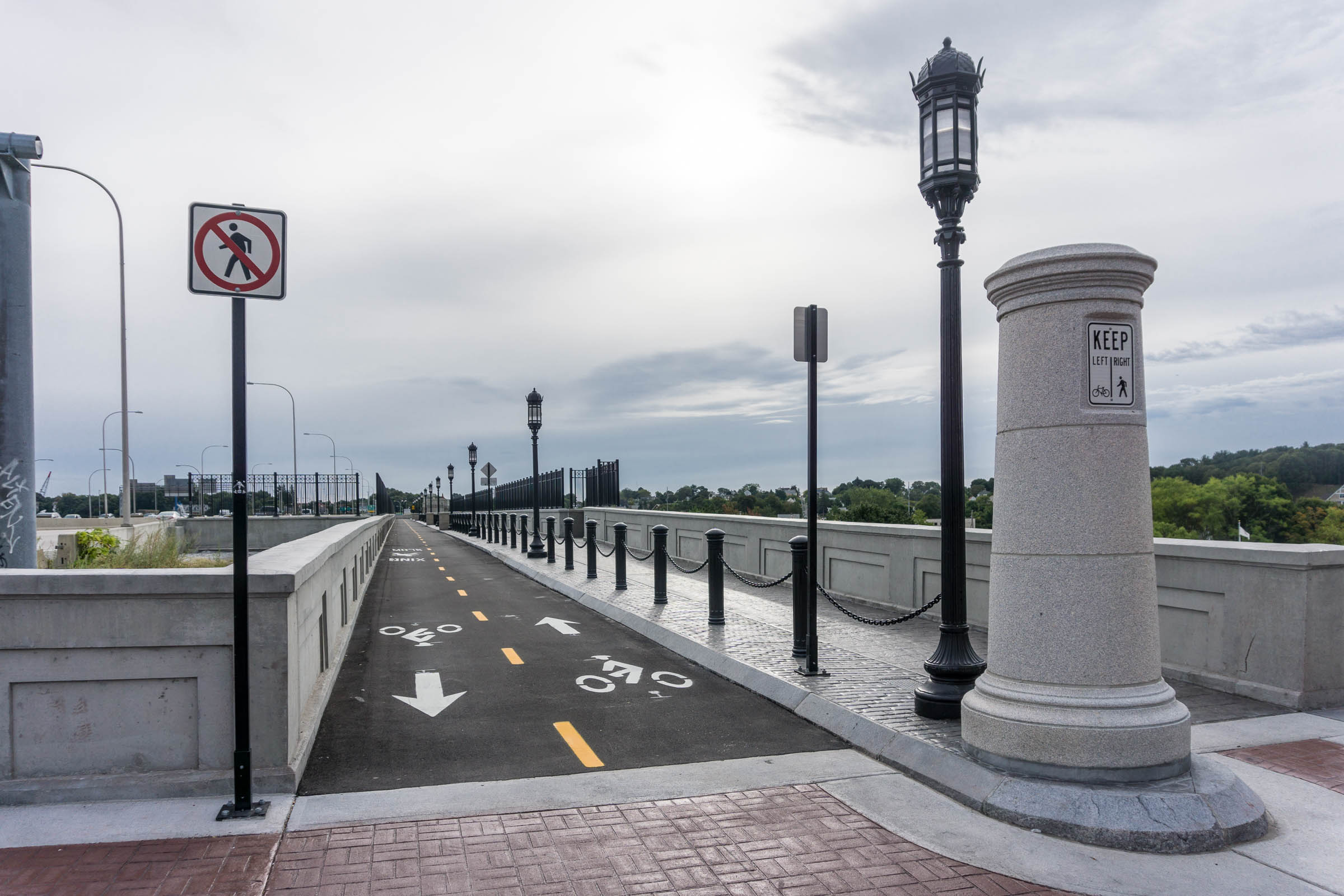 George Redman Linear Park, Providence Rhode Island. Opened September 2015.